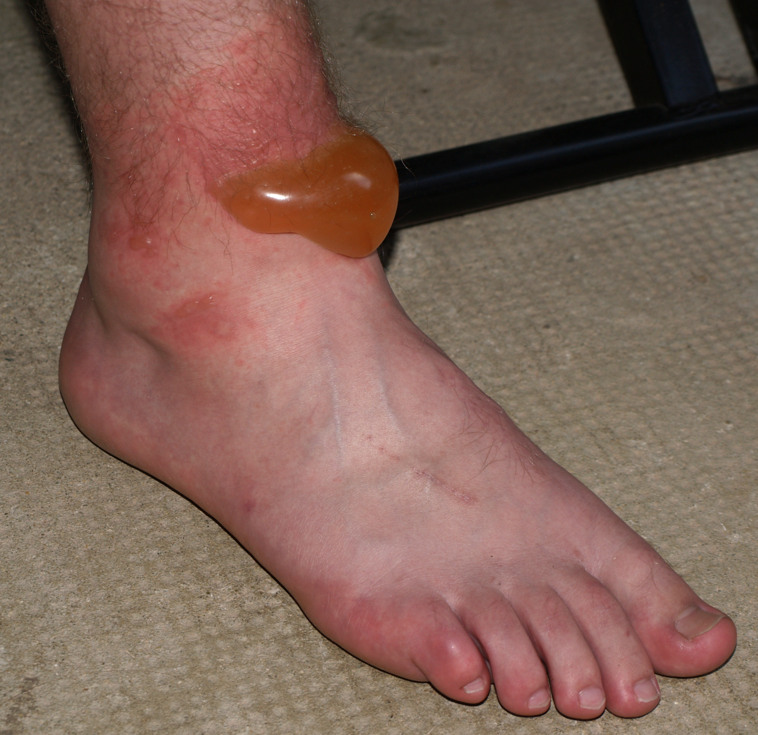 Blister caused by Roundup (Glyphosate)